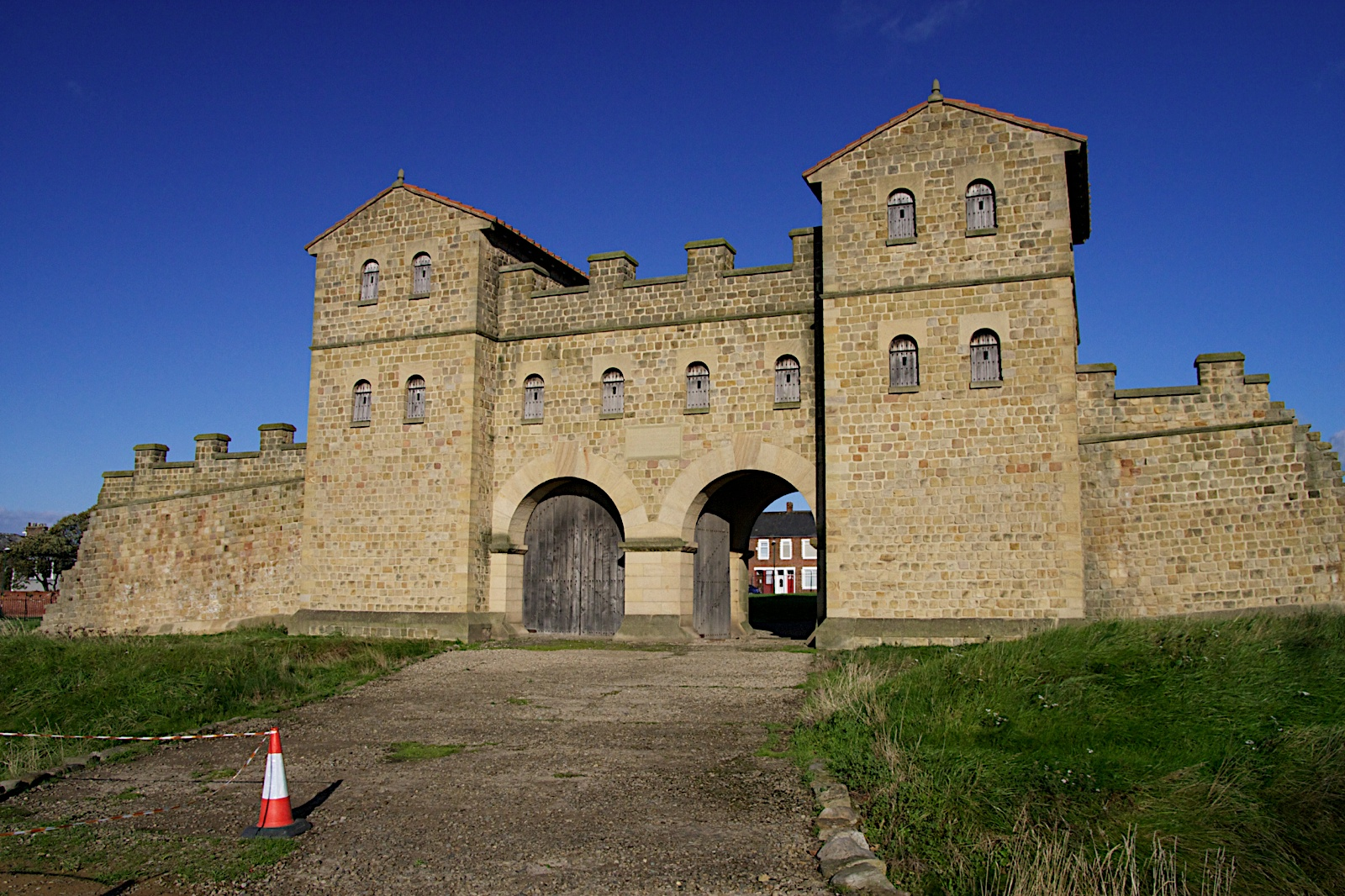 Arbeia/South Shields